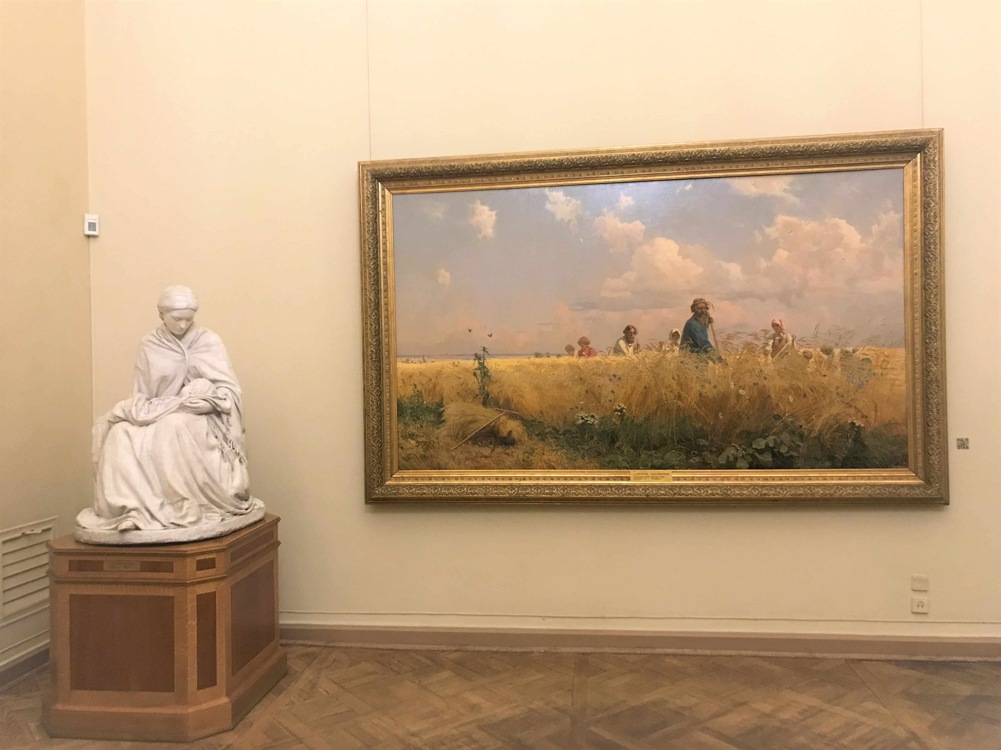 "Harvest time" ("Croppers") (painting by Grigory Myasoedov, 1887) in the State Russian Museum